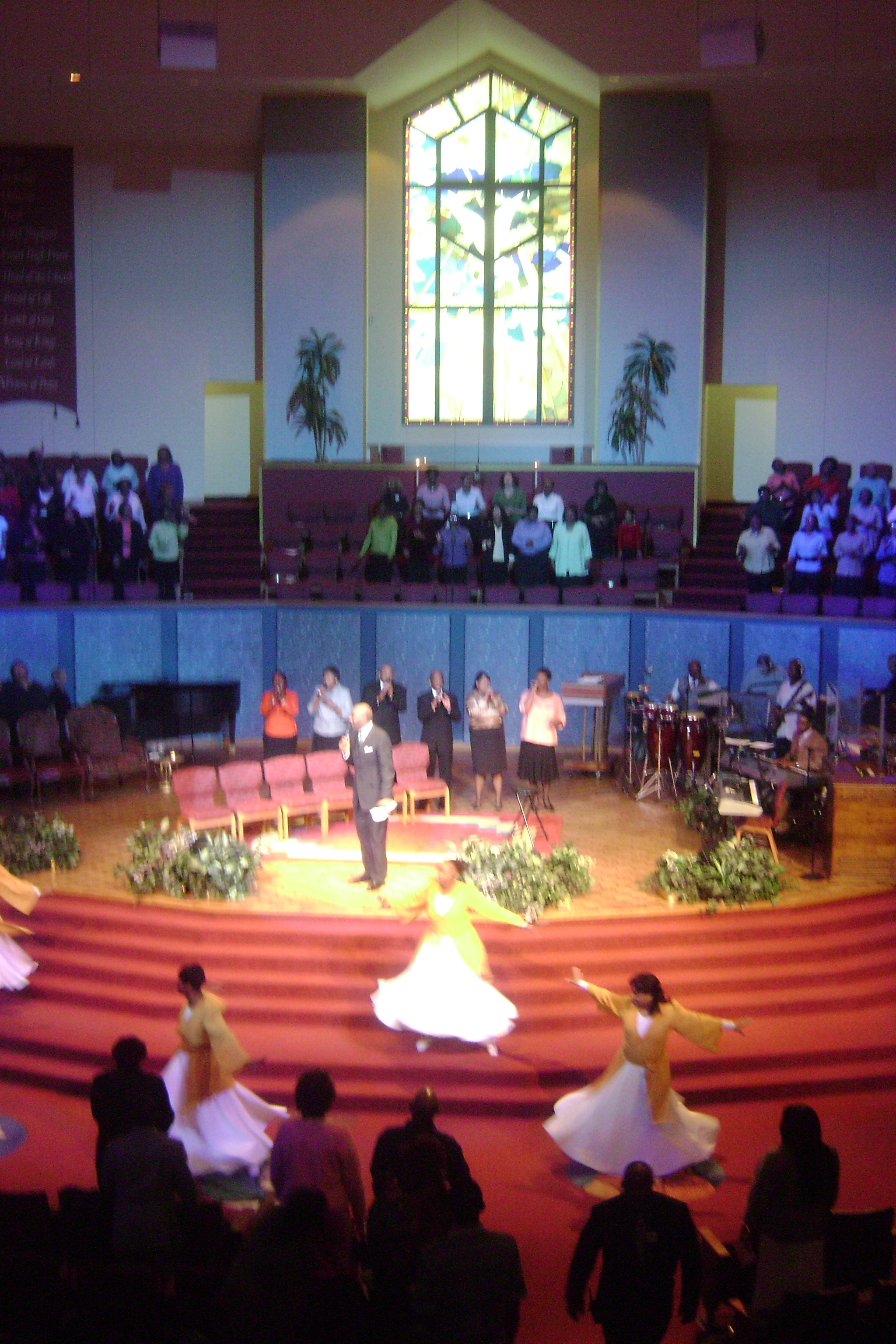 The First Cathedral, a Megachurch in Bloomfield, Connecticut, during Sunday Morning Praise and Worship